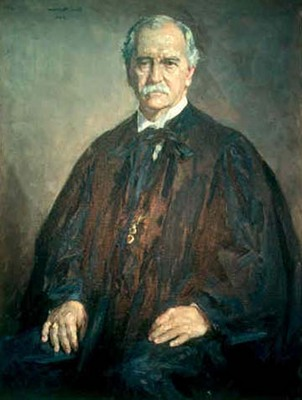 Alexander Campbell King by Gari Milchers (1922)